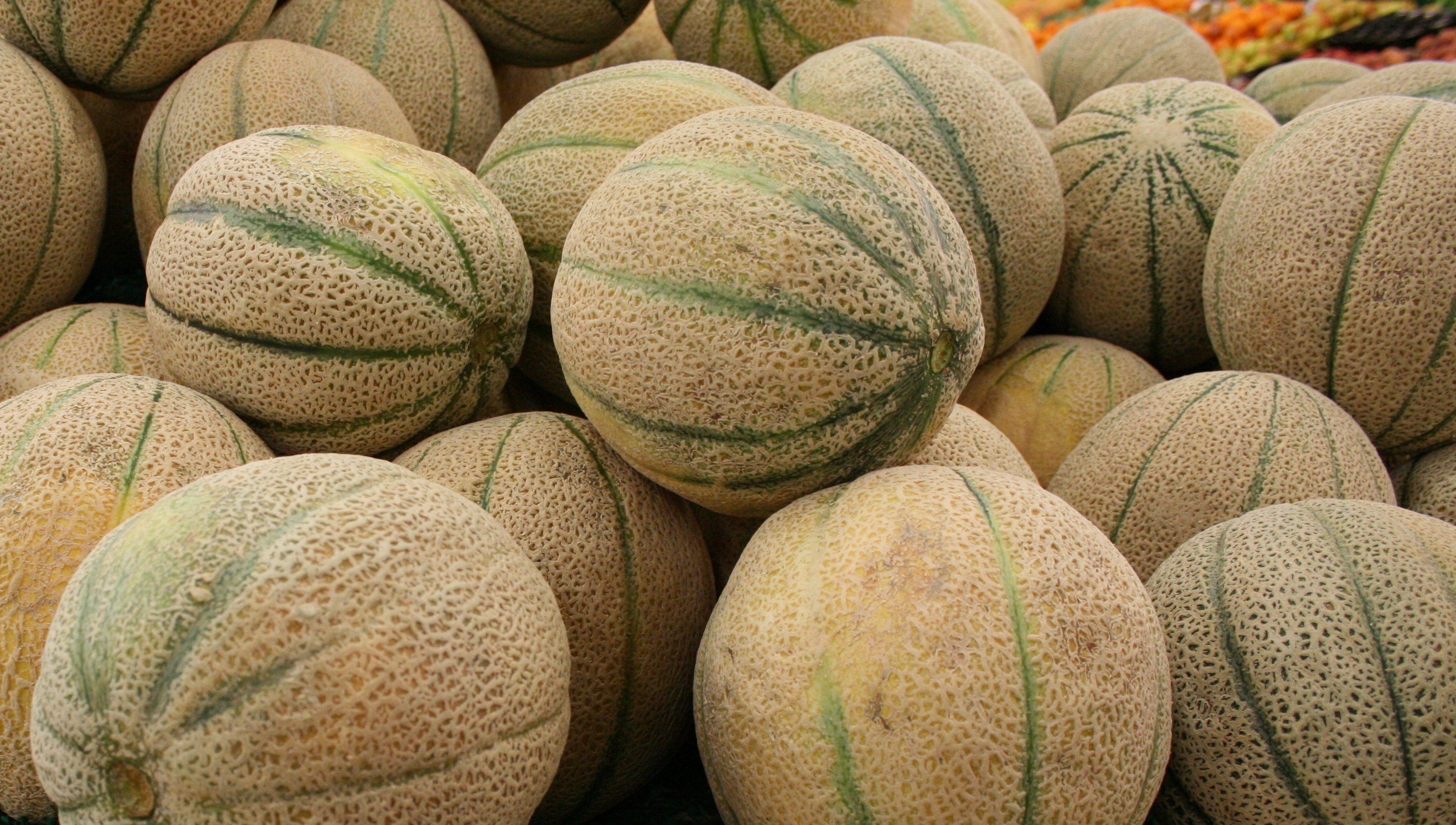 Stacked rockmelons (cantaloupe) in a fruit and vegetable store.